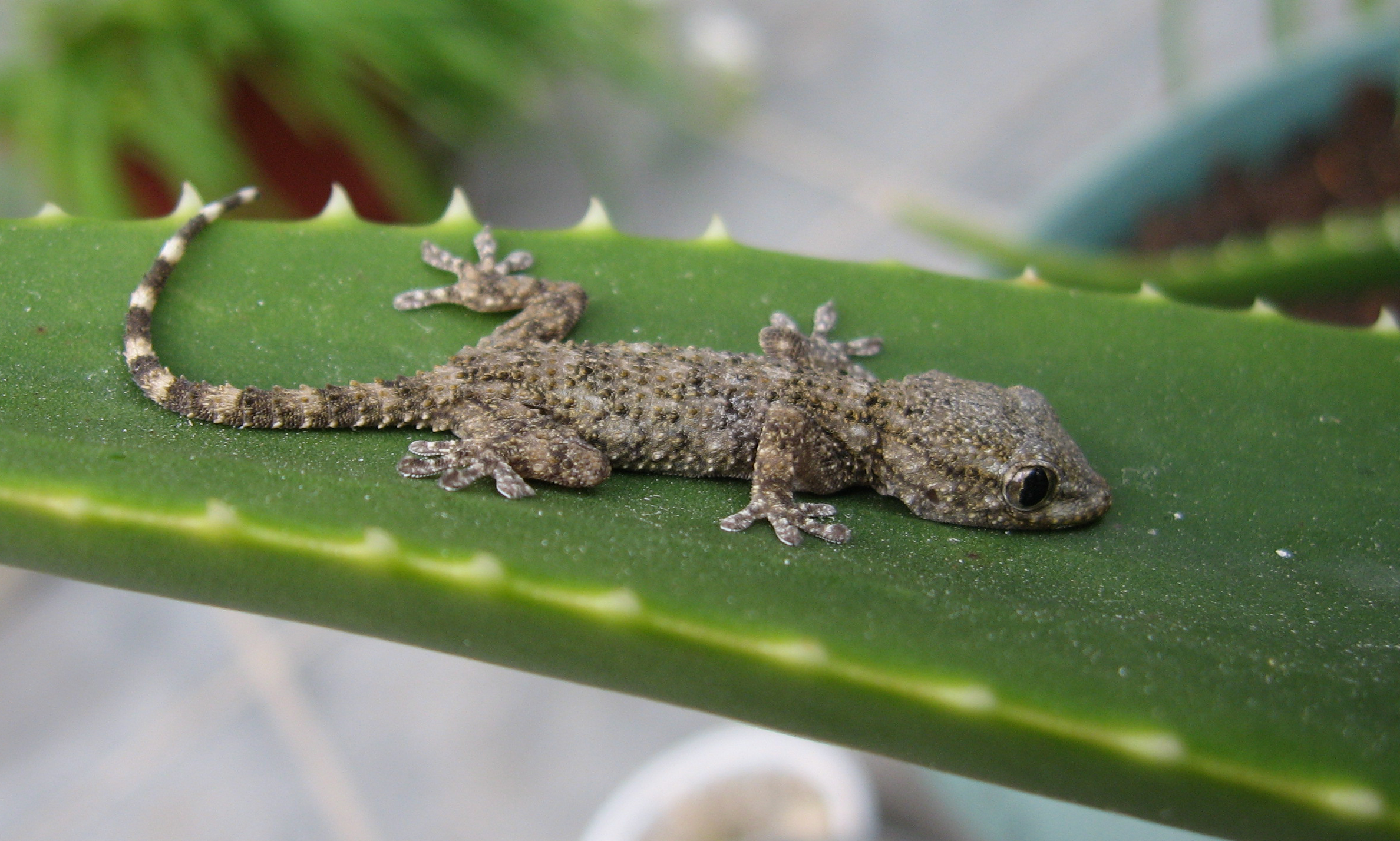 Photo taken in February 2007 at the island of Crete, Greece. Tarentola mauritanica upon a leaf of Aloe arborescens.